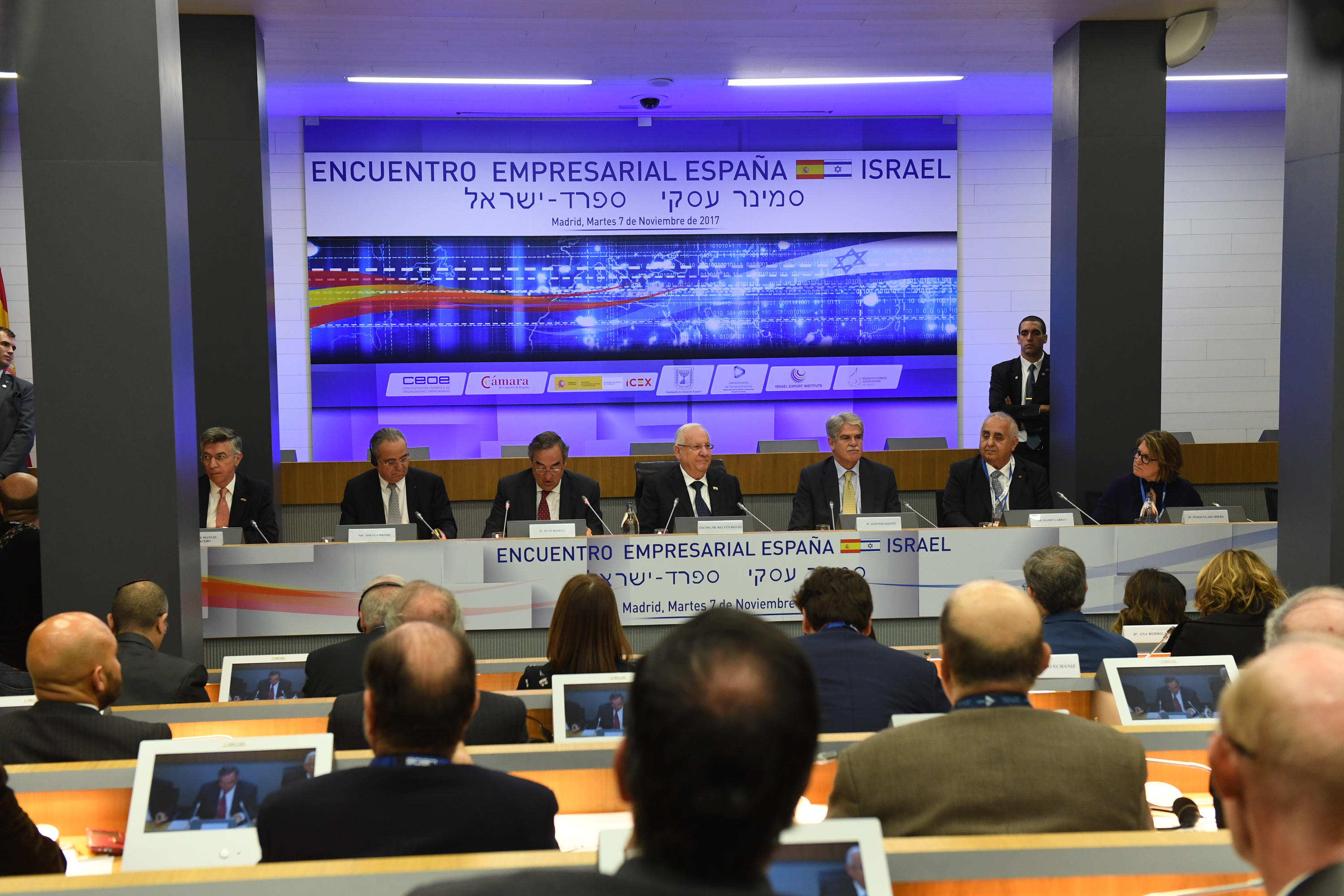 President of the State of Israel, Reuven Rivlin, at the economic seminar held at the Spanish Industrialists' Association. Tuesday, November 7, 2017. Photo Credit: Haim Tzach / GPO.